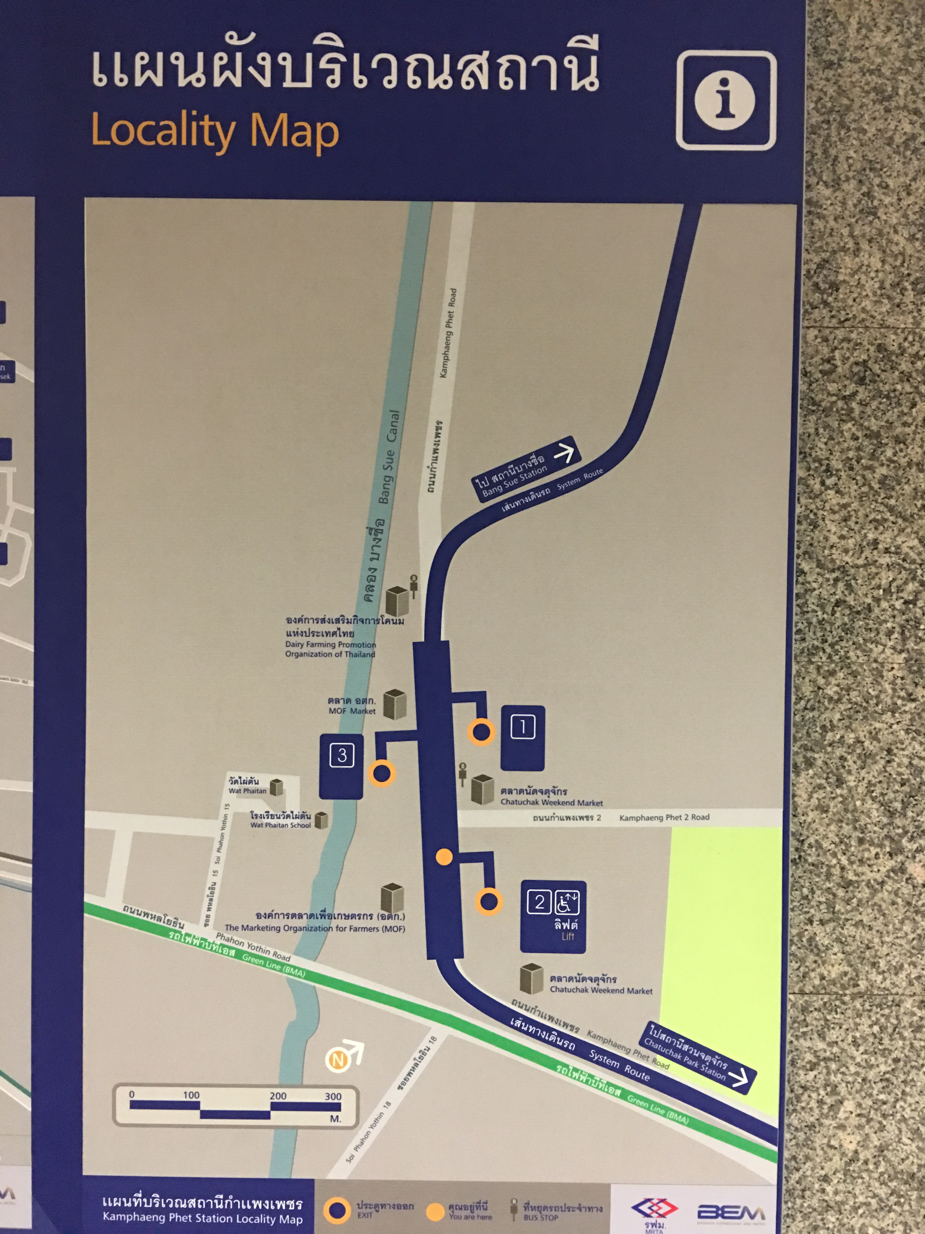 The locality map of Kamphaeng Phet Station